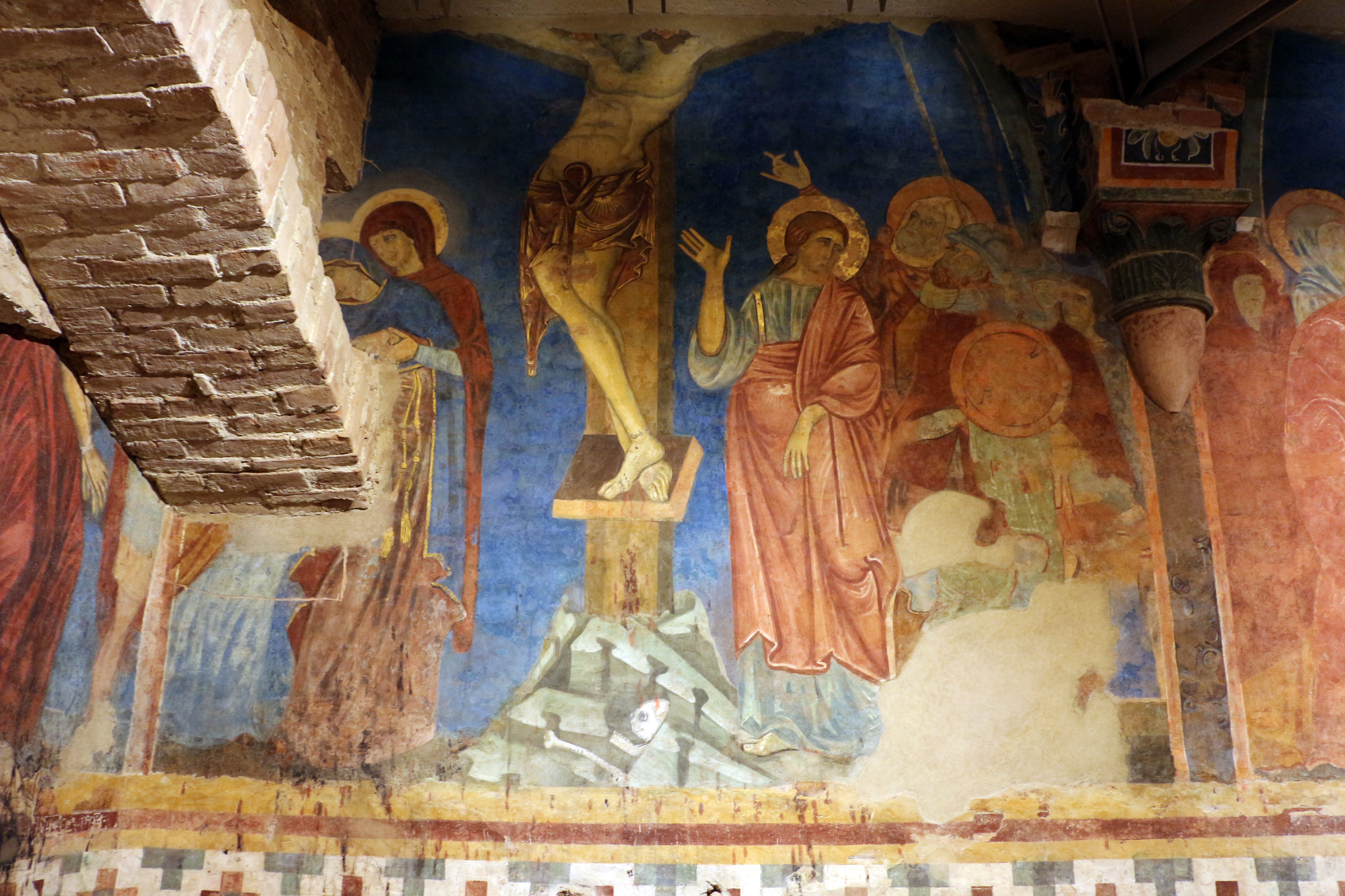 Cathedral (Siena) - Crypt